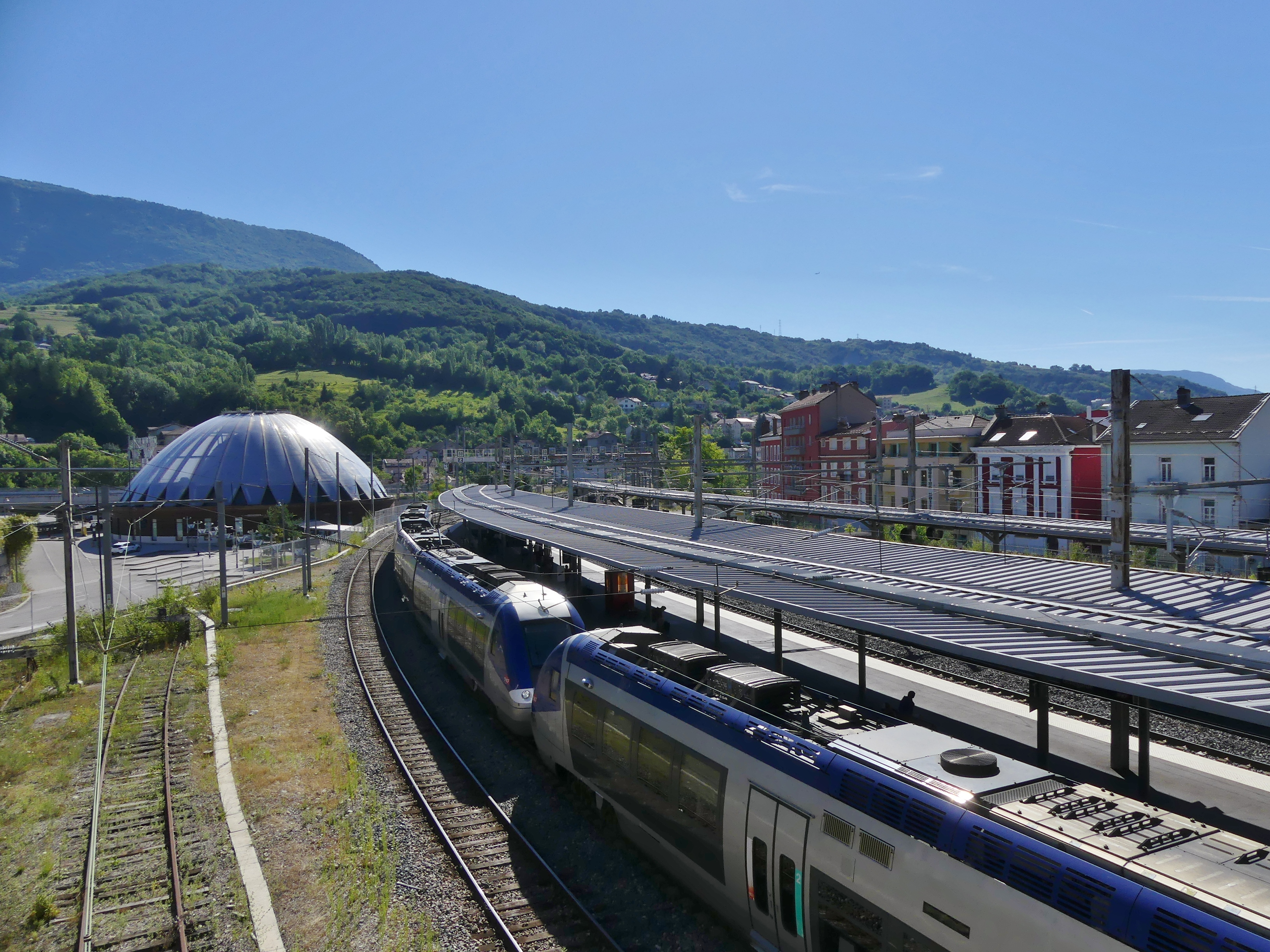 General sight on Bellegarde railway station, in Ain, France. Two SNCF Class Z 27500 are awaiting for their departure to Éviant-les-Bains and Saint-Gervais-les-Bains.